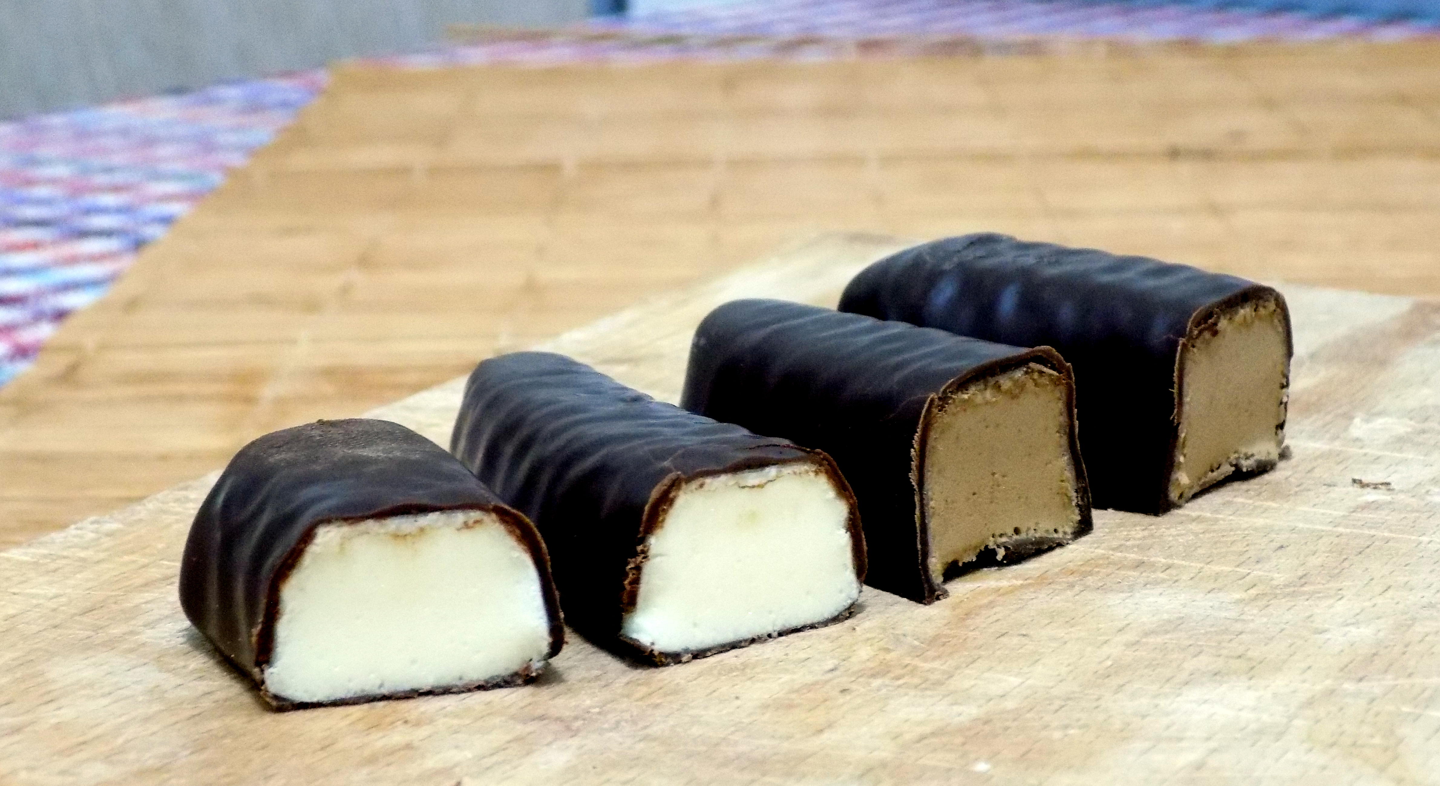 "Bananica" (Cream banana), Serbian brand since 1938. - original, with white cream and new with chocolate-enriched cream